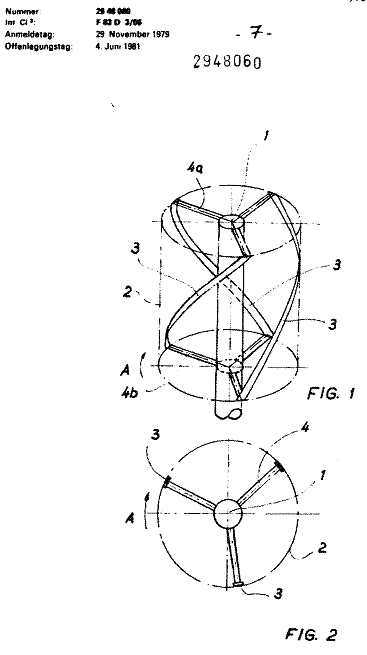 Stampa's 1979 patent figure